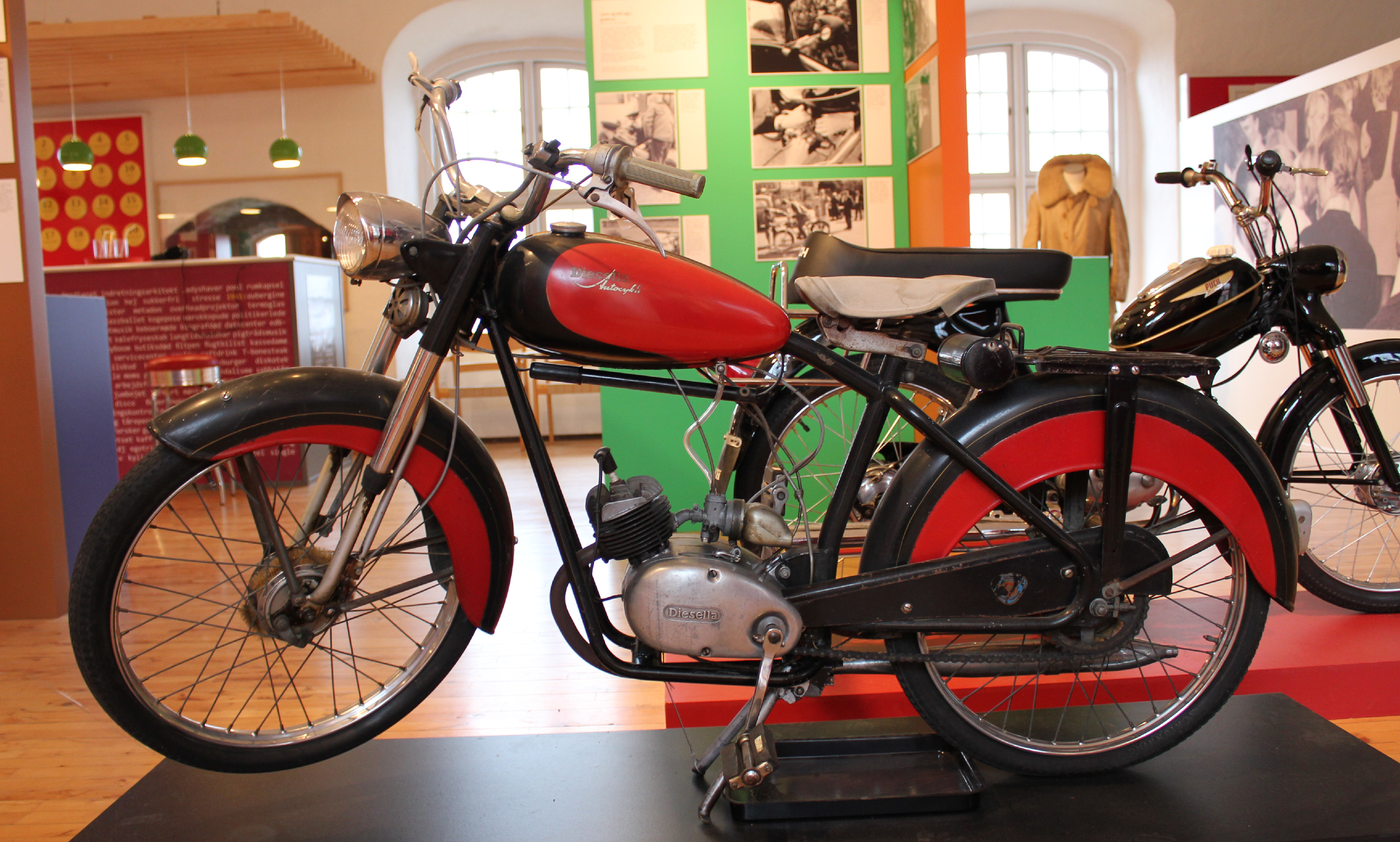 Diesella moped. Danish produced moped at an exhibition at Koldinghus 2010.